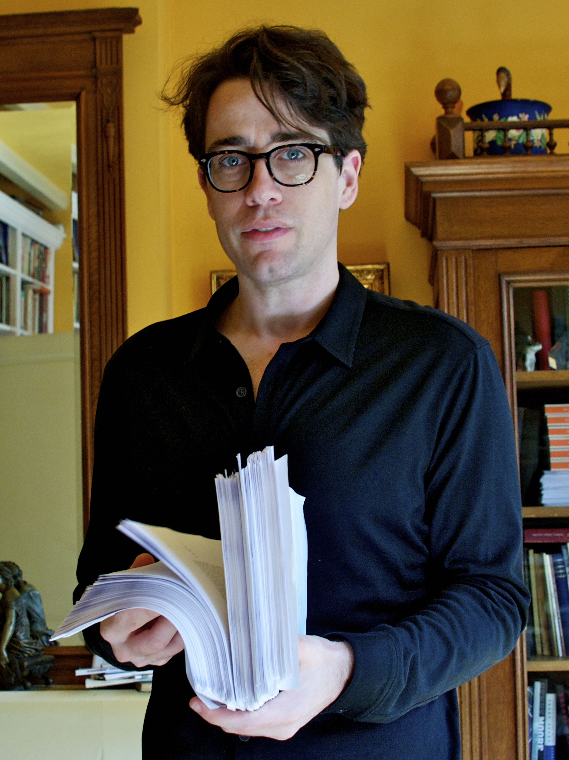 Benjamin Moser with the manuscript of Clarice Lispector's Complete Stories